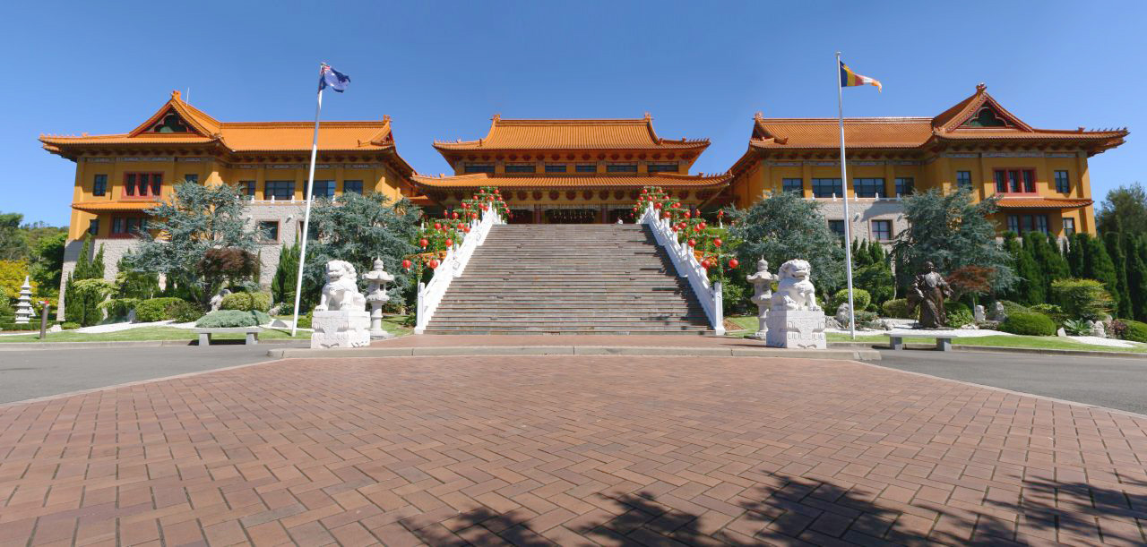 6 photos stitched in hugin with a rectangular projection